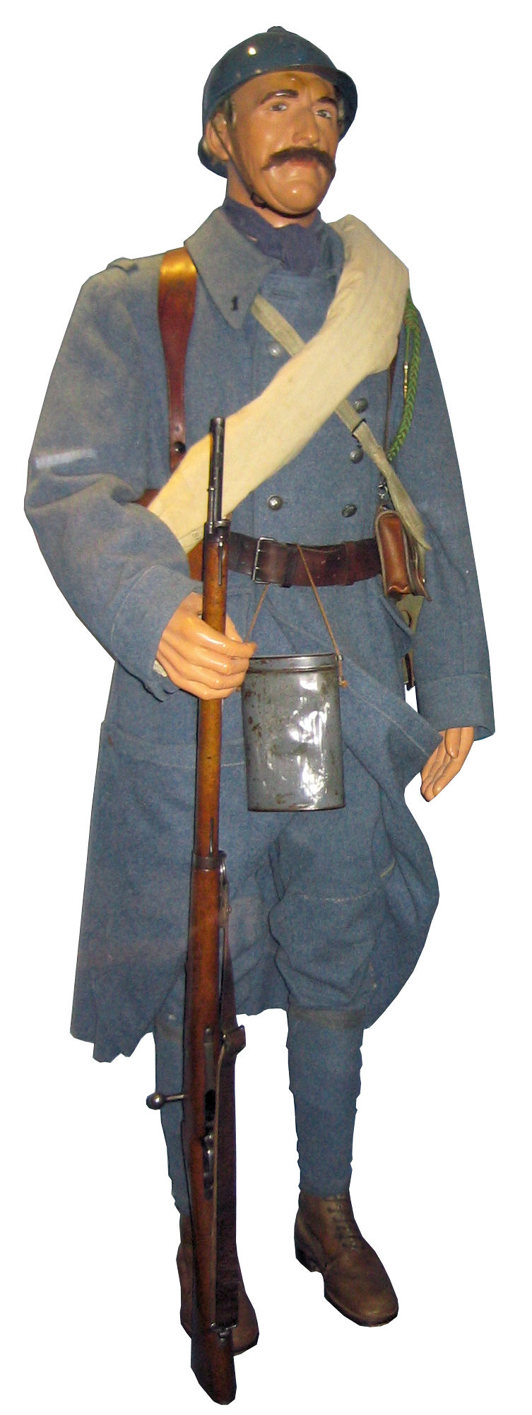 French soldier of WWI (in coll. Mémorial de Verdun) : casque Adrian, cravate bleue sous le col de afin d'éviter les frottements et préserver la vareuse de la sueur, numéro de collet, capote croisée modèle 1915, brêlage et ceinturon en cuir fauve sur lequel sont fixés les cartouchières, boîte métallique de masque à gaz, pantalon bleu, bandes molletières, brodequins, fusil Berthier.